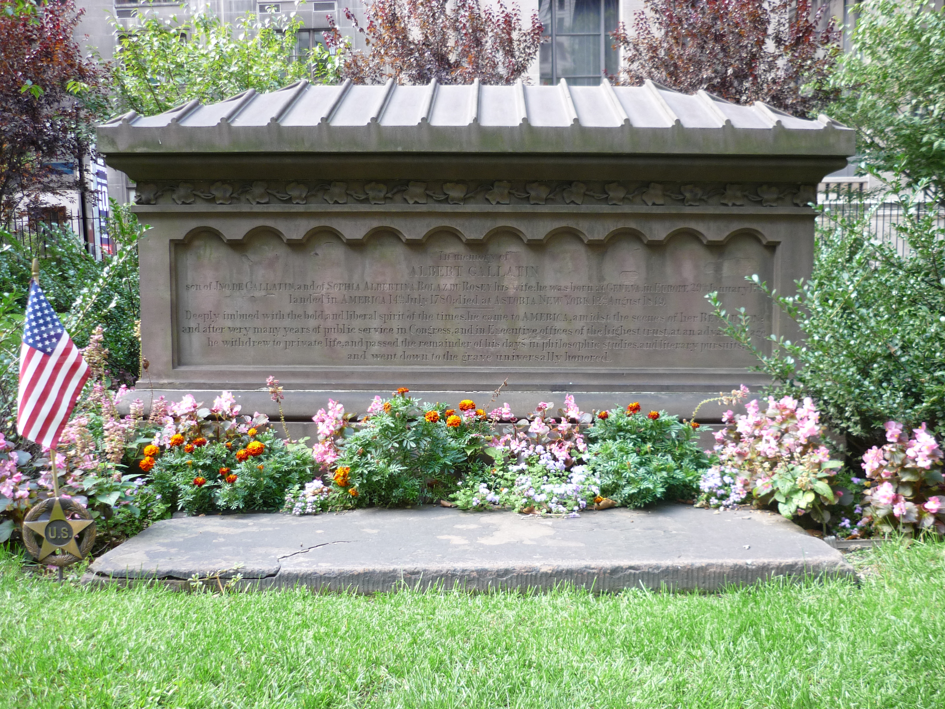 This photo is of Wikis Take Manhattan goal code G5, Albert Gallatin.